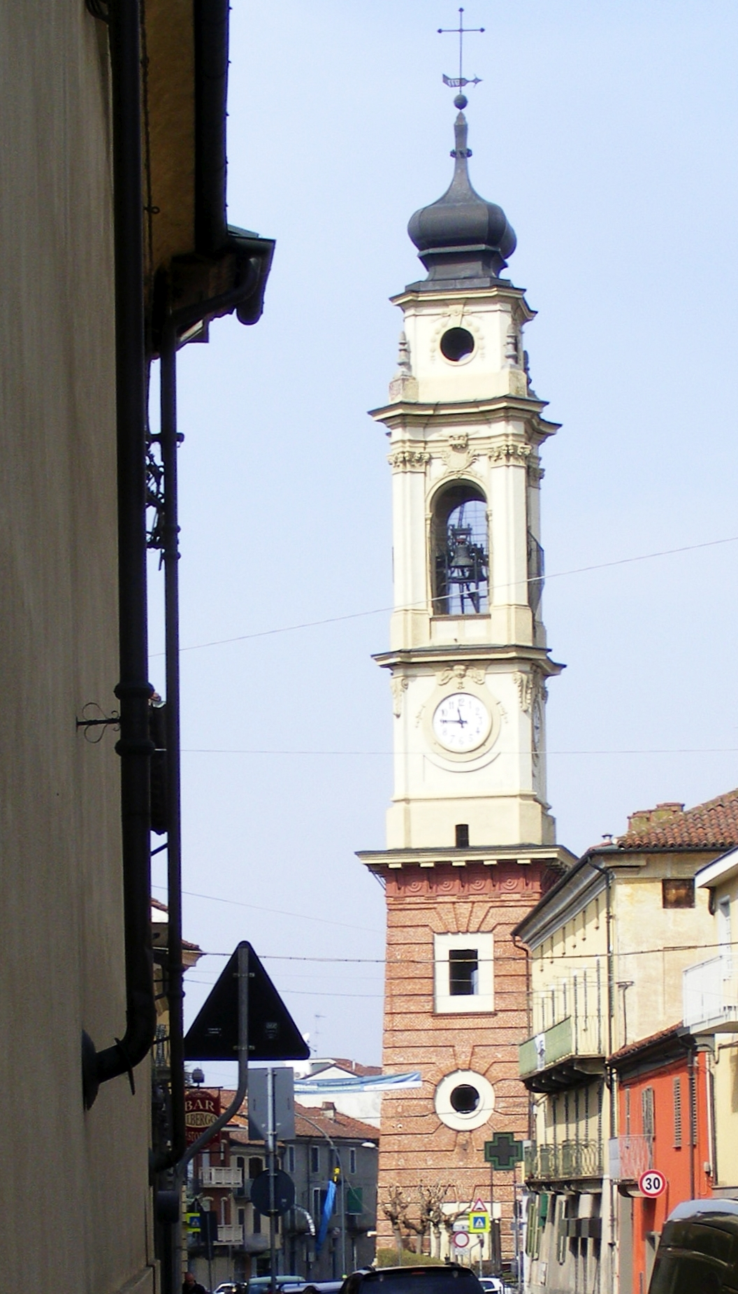 Poirino (TO, Italy): bell tower